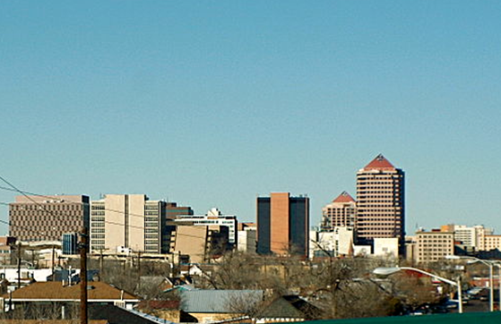 View of downtown Albuquerque, New Mexico from the south